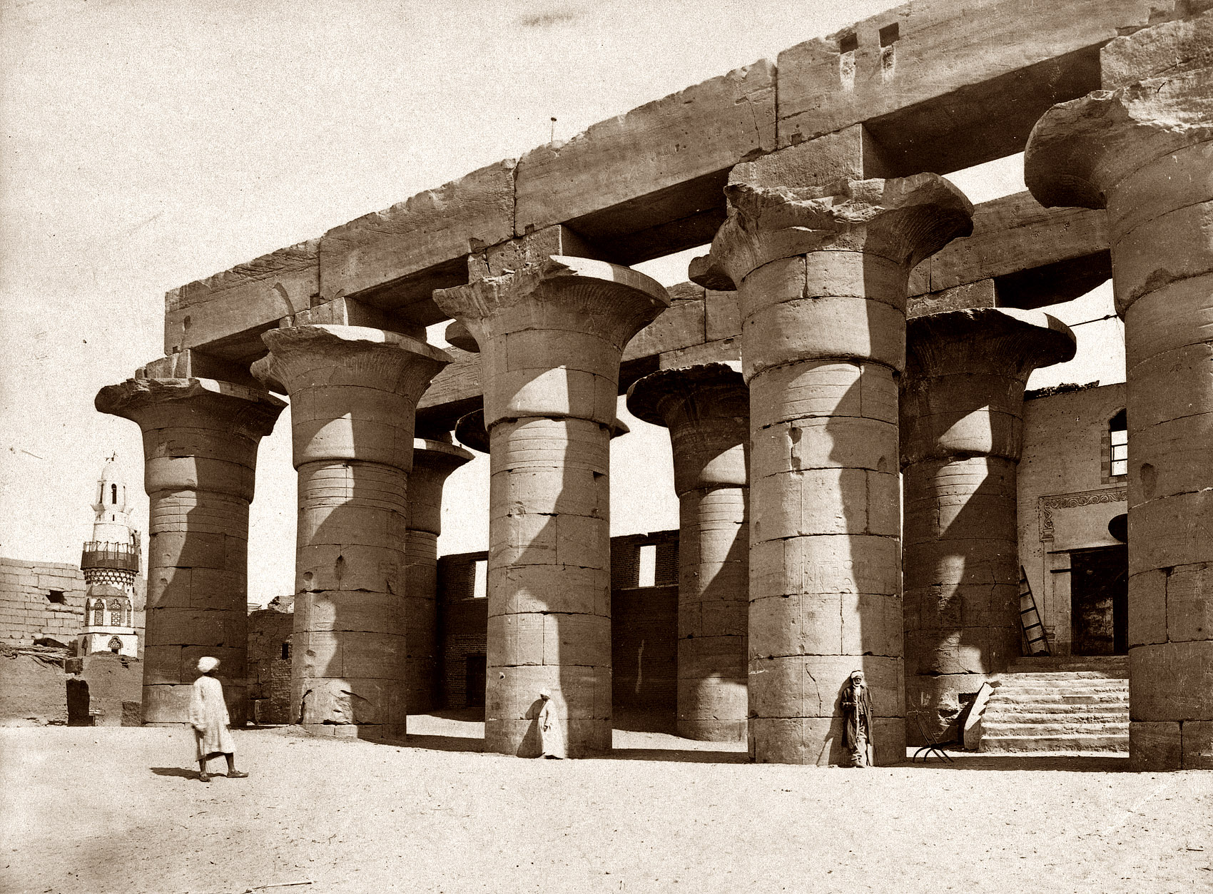 Ruins of Luxor Temple at Luxor, circa 1858.